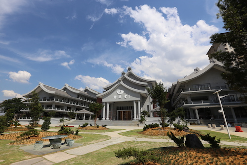 Tzu Chi KL & Selangor Branch's Office and Building. Address: No. 359, Jalan Kepong, 52000 Kuala Lumpur, Malaysia. Web: Instead of building "temples", Tzu Chi builds "halls". The objective of constructing the Jing-Si Hall is to establish a spiritual fortress to propagate Buddha's teachings. It is hoped that both the exterior and interior designs of the Hall will be able to spread the silent Dharma by enabling one to truly see and feel Buddha's teachings and Tzu Chi culture upon entering this Hall. Thus, the Jing-Si Hall is subtly and eternally disseminating the wholesome teachings of the Buddha and the virtues of the Tzu Chi world.